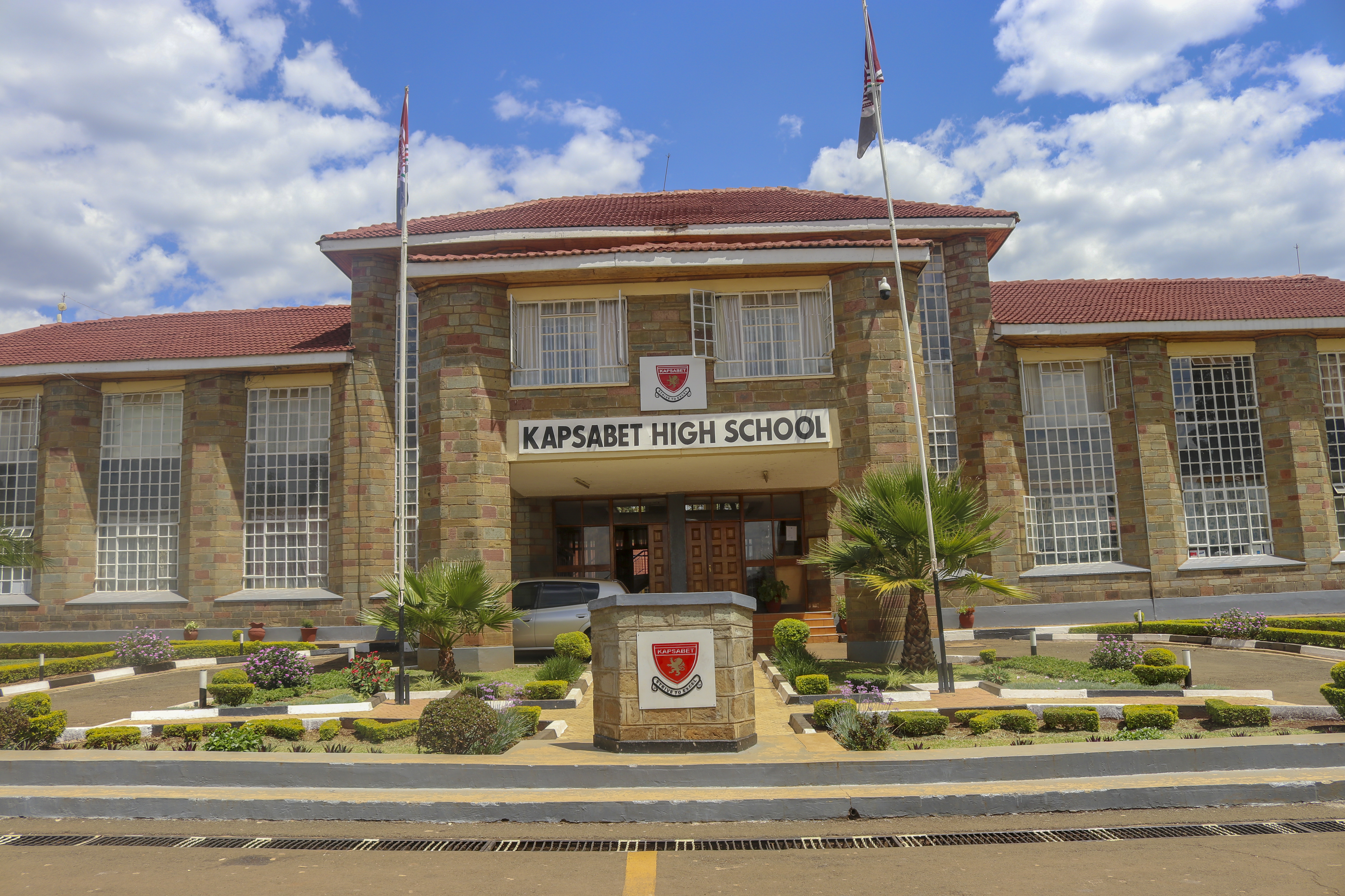 Front Photo of Kapsabet High School Administration Block